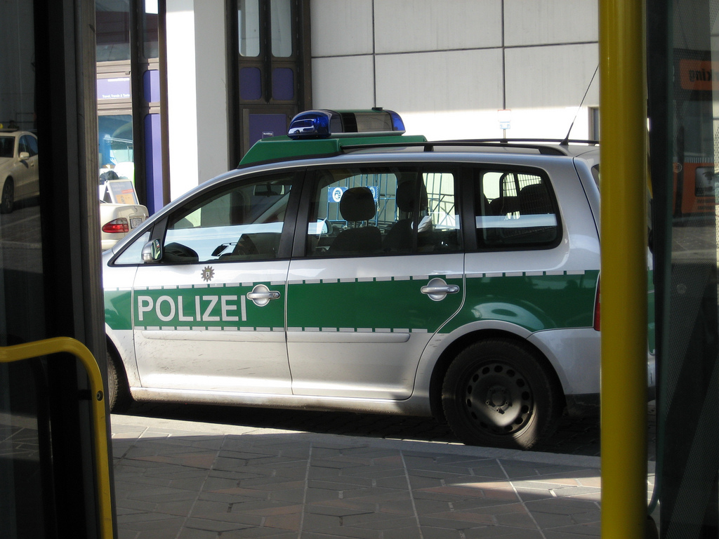 German Police Patrol car in old green-silver livery in Berlin.